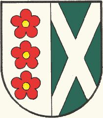 Coat of arms of Ebersdorf, Styria